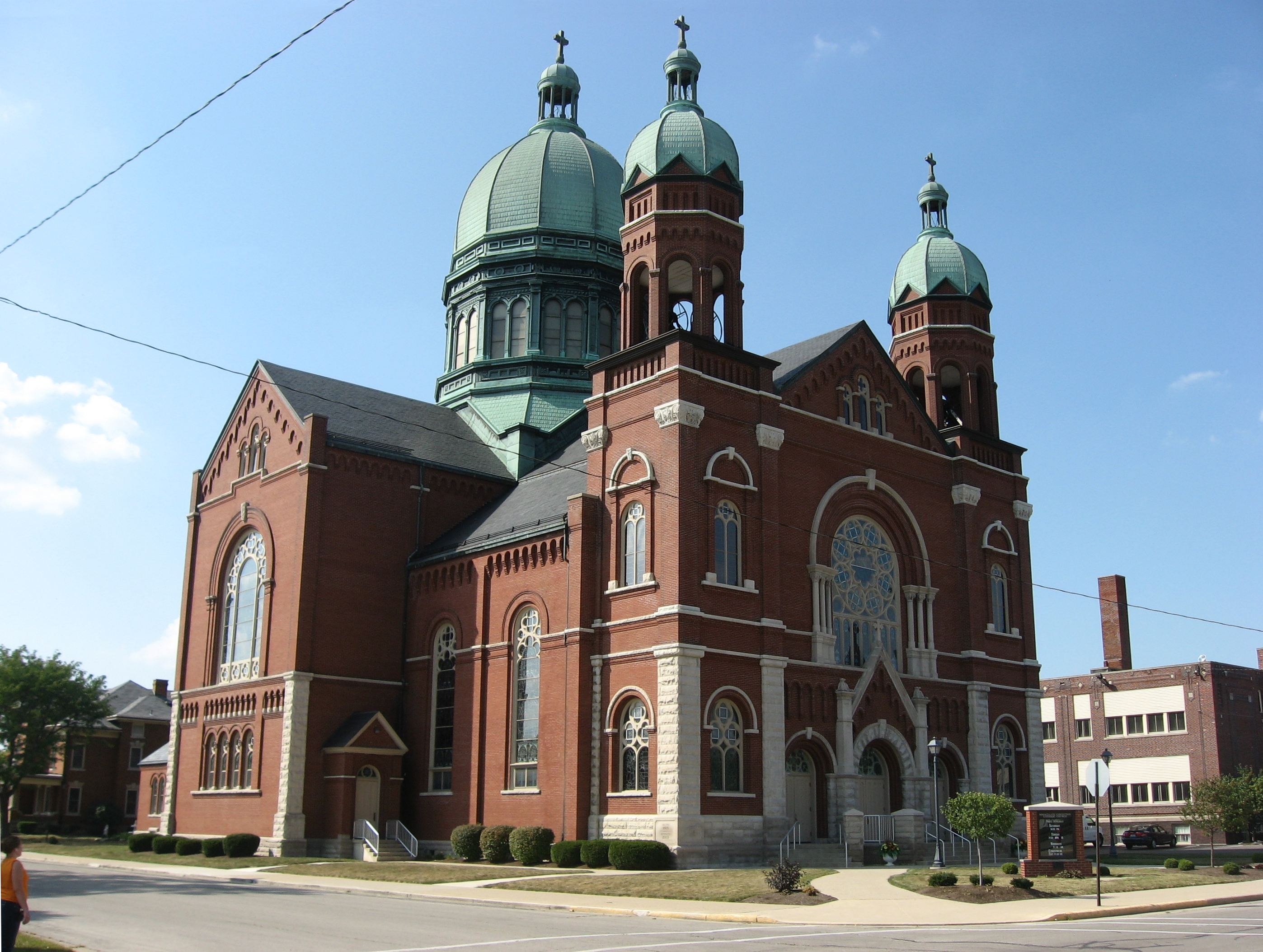 Front and southern side of Immaculate Conception Catholic Church, located on the northwestern corner of the intersection of Anthony and Walnut Streets in downtown Celina, Ohio, United States. Built in 1903, the church was listed on the National Register of Historic Places as a part of the Cross-Tipped Churches of Ohio Thematic Resources.